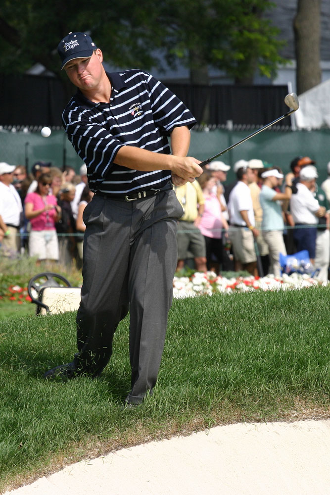 Chad Campbell practicing a day before the 2004 Ryder Cup at the Oakland Hills Country Club in Bloomfield Hills, Michigan.